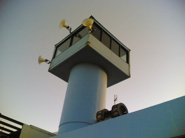 Lifeguard tower in Marouba Beach, near Sydney, Australia.Black object on the right is a shark alarm siren.lifeguard tower, maroubra beach